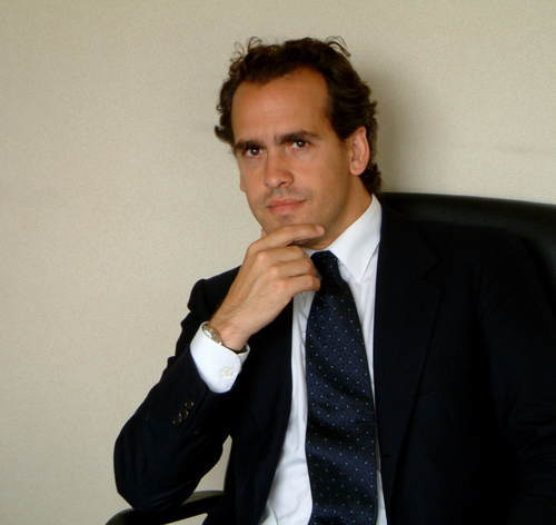 Francesco Ruspoli, 10th Prince of Cerveteri